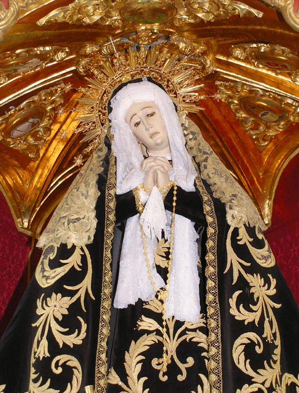 Imágen de Ntra. Sra. de la Soledad, Patrona de Aceuchal